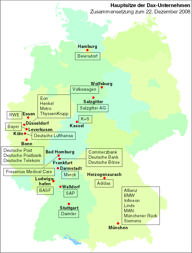 Map showing the headquarters of the 30 companies that make up the Deutscher Aktienindex (Dax).